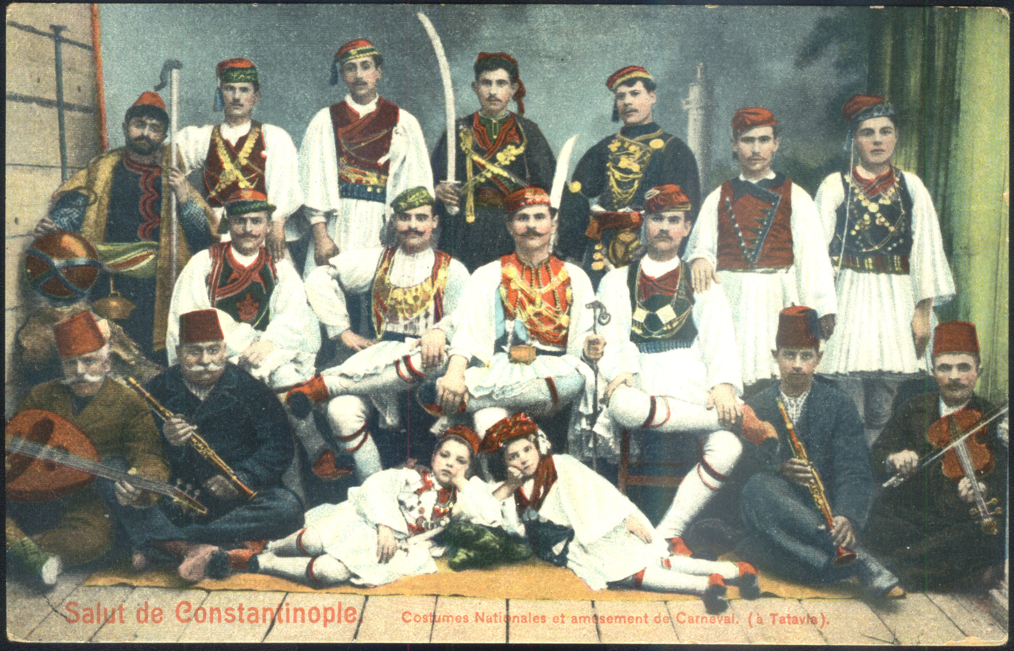 Card showing tradditionally dressed people in Kurtulus (Tatavla), during Baklahorani carnival, 1930s